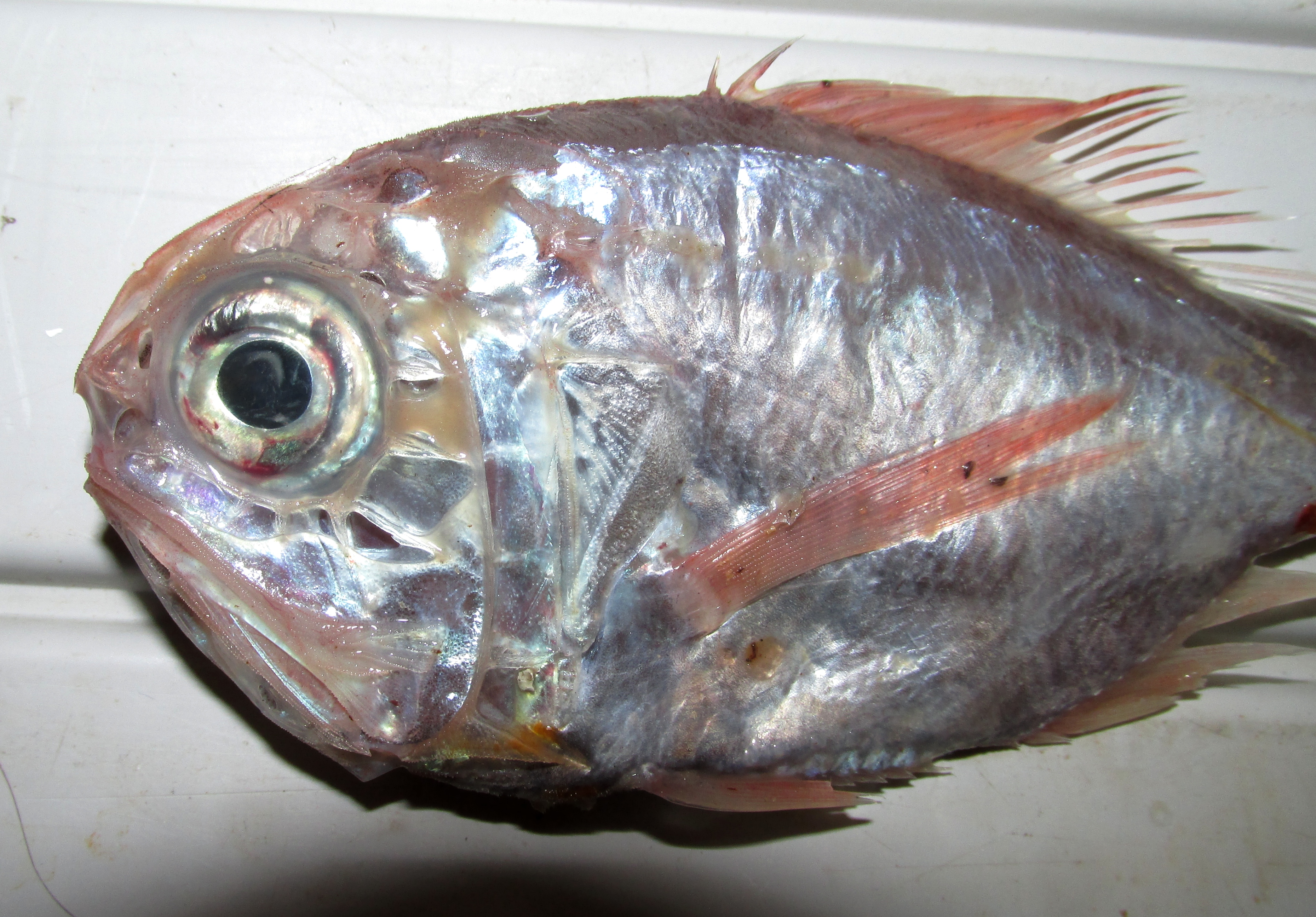 Mediterranean slimehead (Hoplostethus mediterraneus) trawled at 500 m depth, Tuscan Archipelago